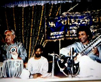 Ustad Shahid Parvez Khan being accompanied by Tabla maestro Pandit Kishan Maharaj